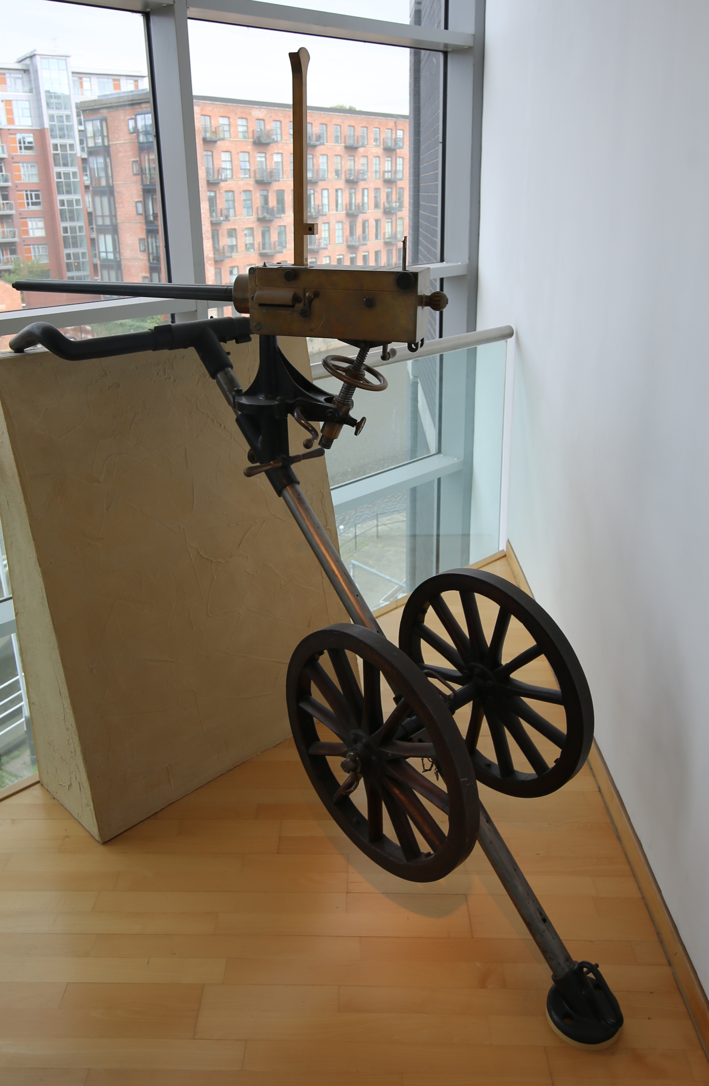 Photo of an 1887 0.303 inch Gardner Machine gun